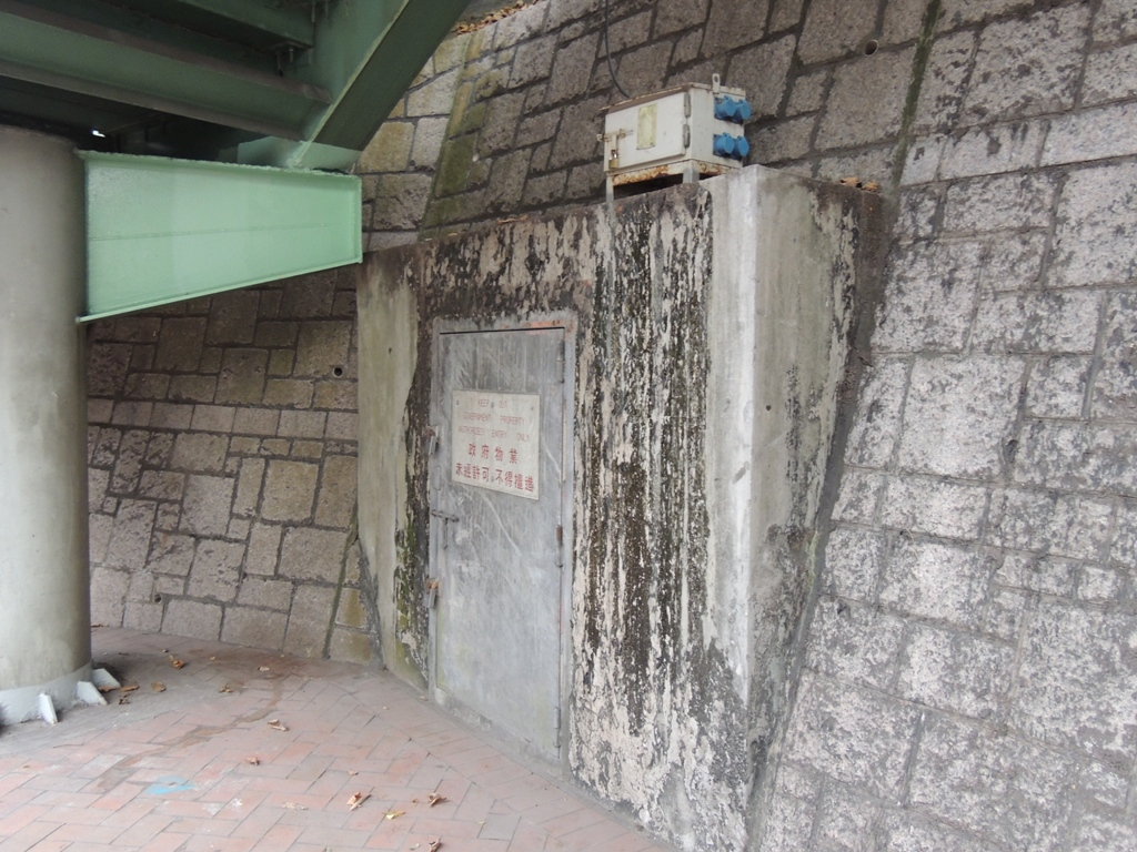 Mount Parish ARP portal No.81